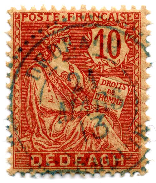 Scan of French post offices in the Turkish Empire (Dedeagh) 10c stamp of 1902